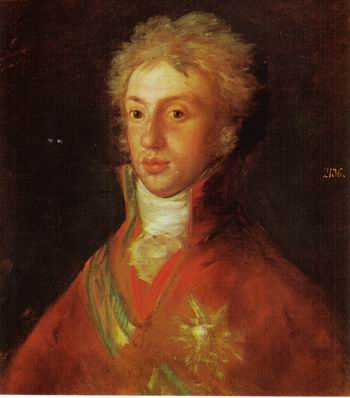 King Louis I of Etruria, son of Duke Ferdinando of Bourbon-Parma and Maria Amalia of Austria, grandson of Holy Roman Emperor Franz I. Stephan of Lorraine and Empress Maria Theresia of Austria